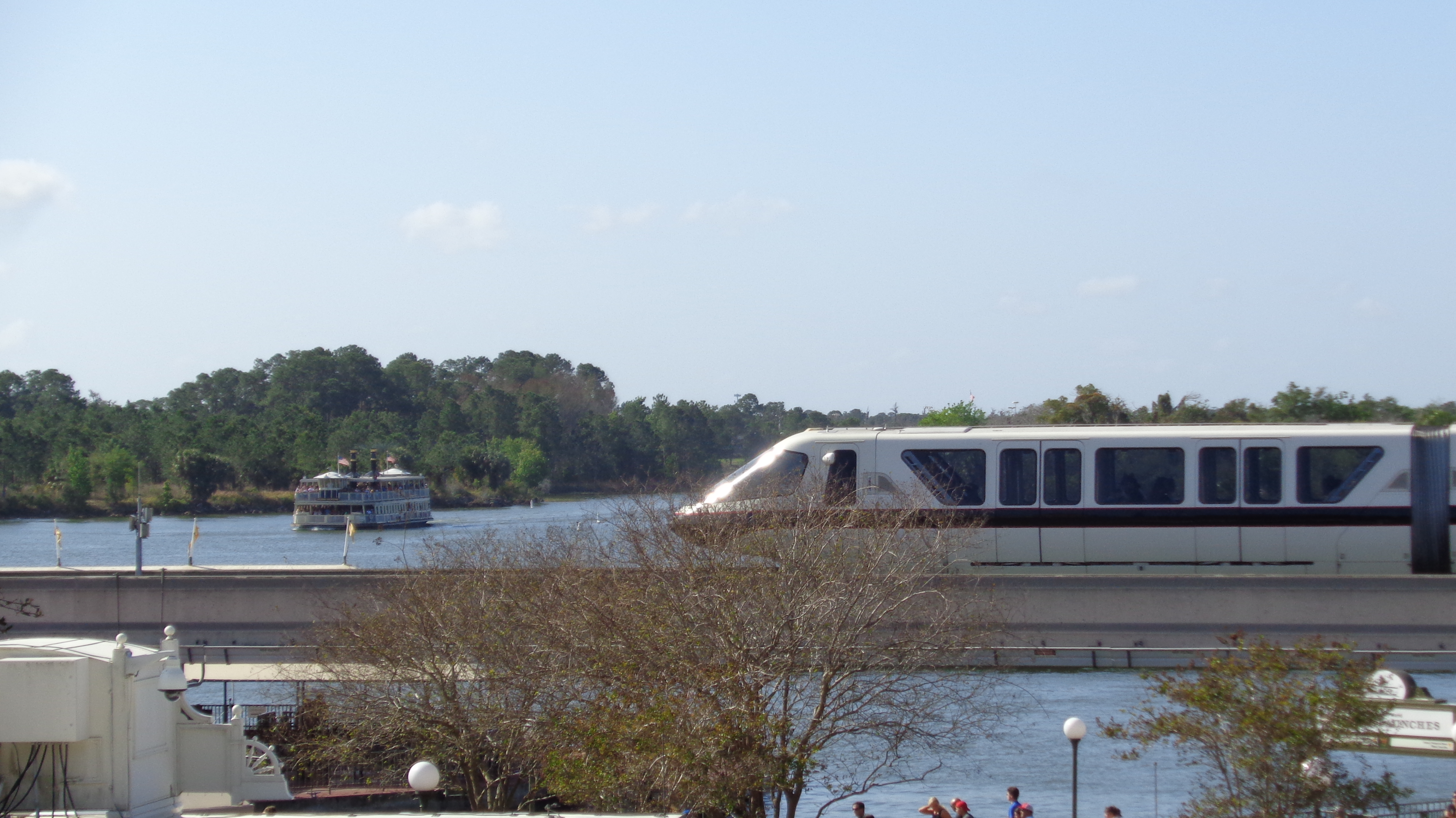 The Walt Disney World Monorail System (foreground) and a ferry on Seven Seas Lagoon (background).